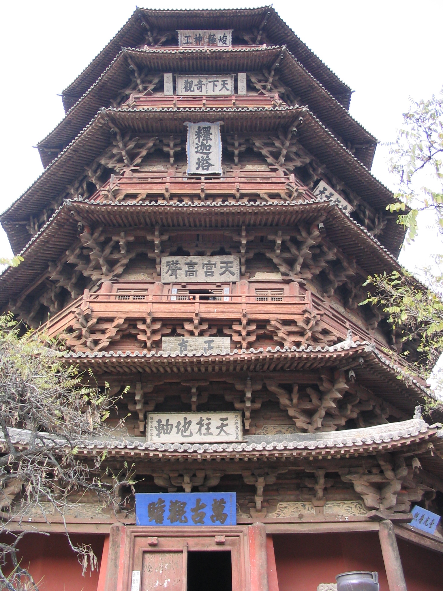 Wooden Pagoda, South of Datong, Shanxi province, China. Dates from 11th century, it was built without nails.